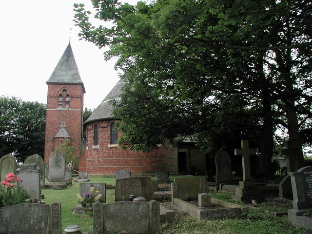 Holy Trinity parish church, Sunk Island, East Riding of Yorkshire, England, seen from the east. In 1877 an old church dedicated to Holy Trinity was demolished and this newer one erected on an adjoining site. The relatively small red brick building ceased functioning as a church in 1983 and is now a heritage centre.